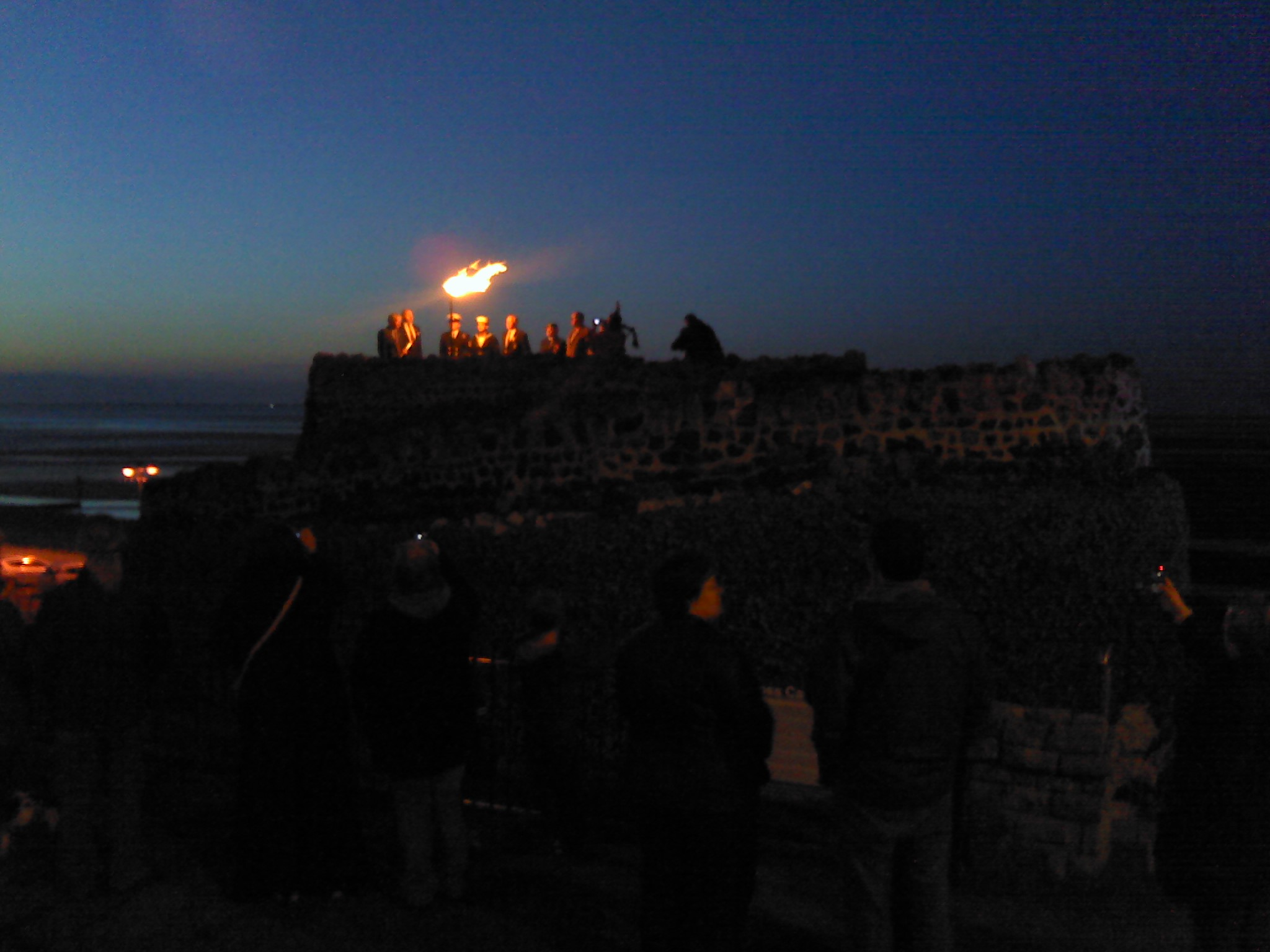 On Monday June 4th 2012 at 22.26 BST a beacon was lit on the top of Ross Castle in Cleethorpes to mark the Diamond Jubliee of HM Queen Elizabeth II since she came to the throne in 1952!